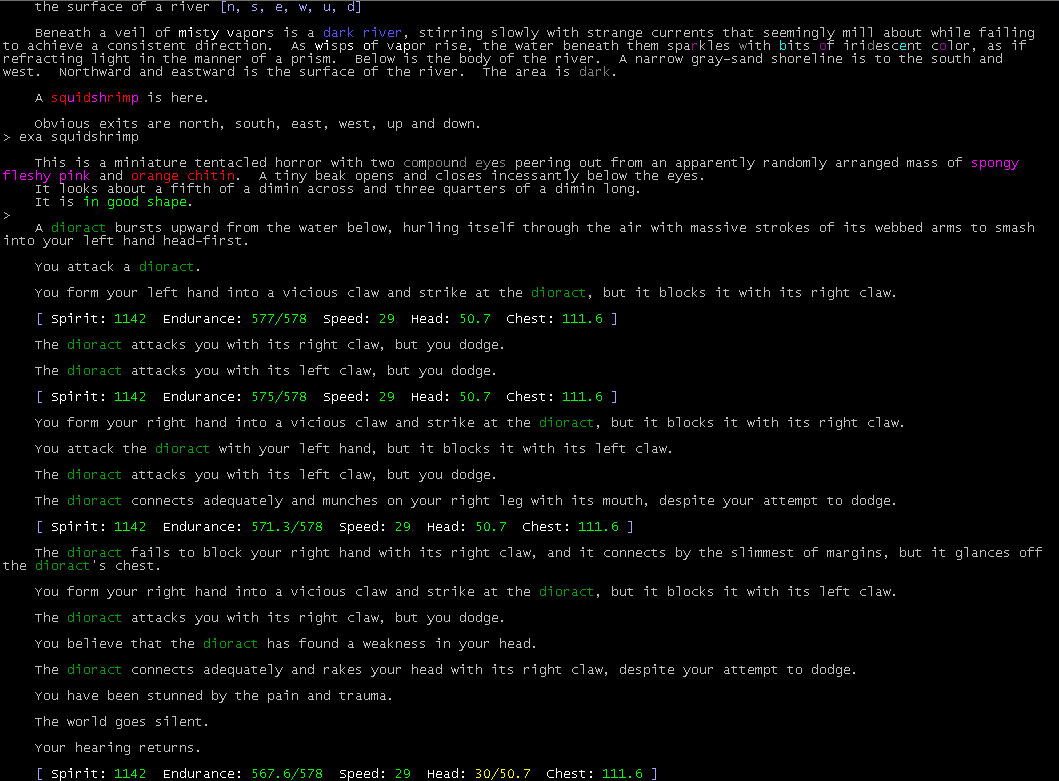 Screenshot from Lost Souls depicting a combat in the River Tethys.